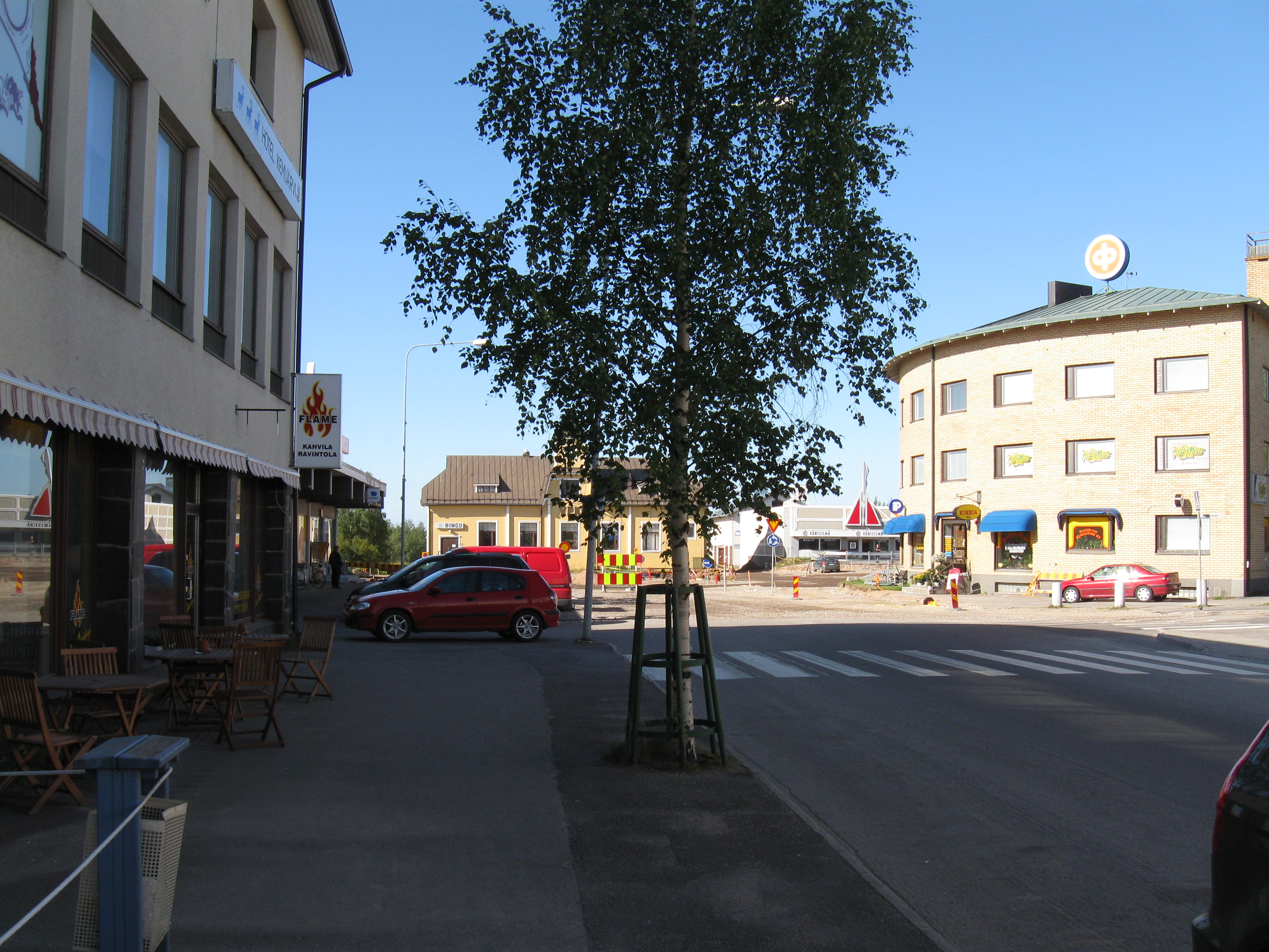 The centre of the city of Kemijärvi, Finland.